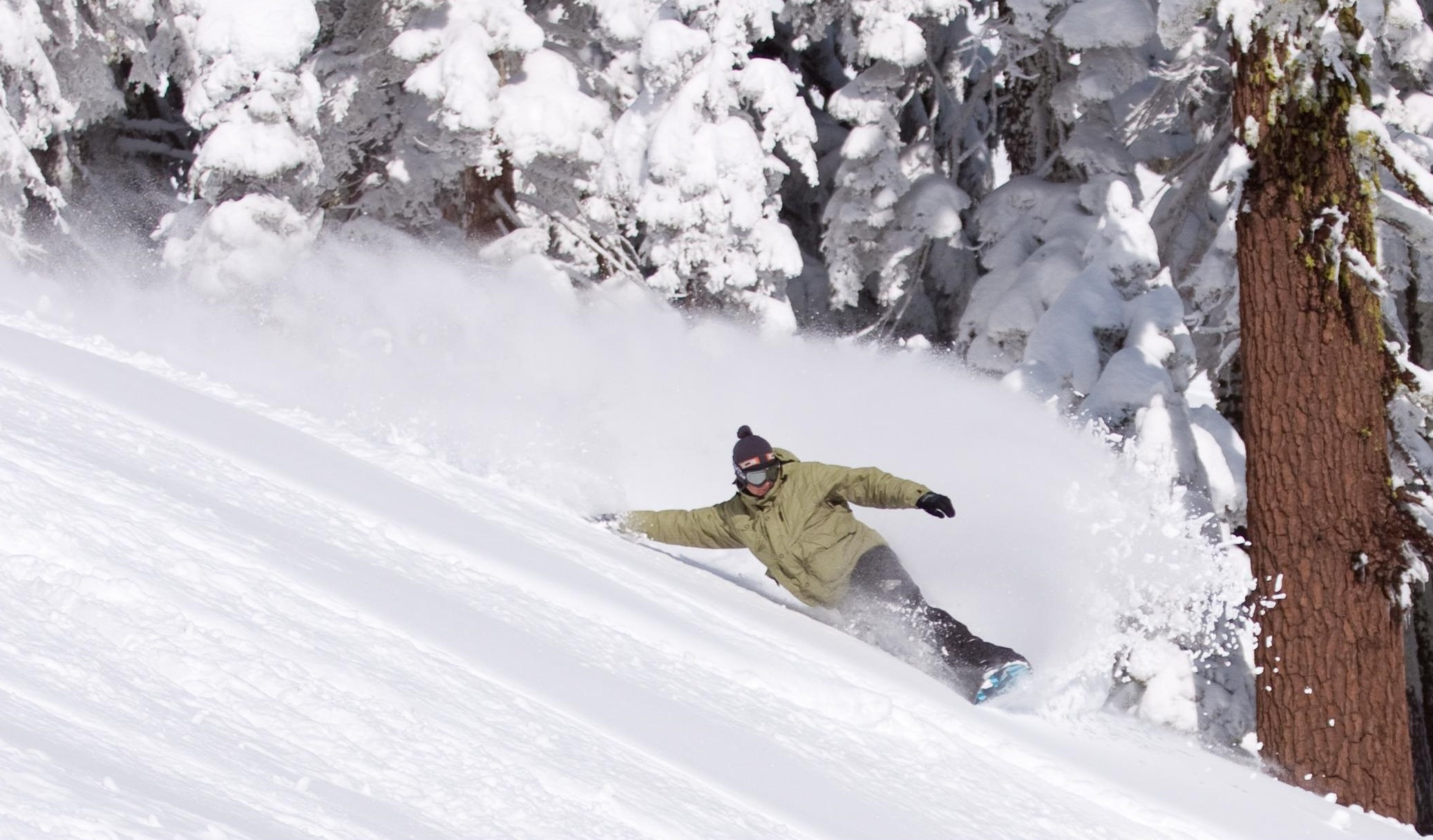 Snowboarding - John Hammond making a turn at Alpine Meadows, Lake Tahoe USA